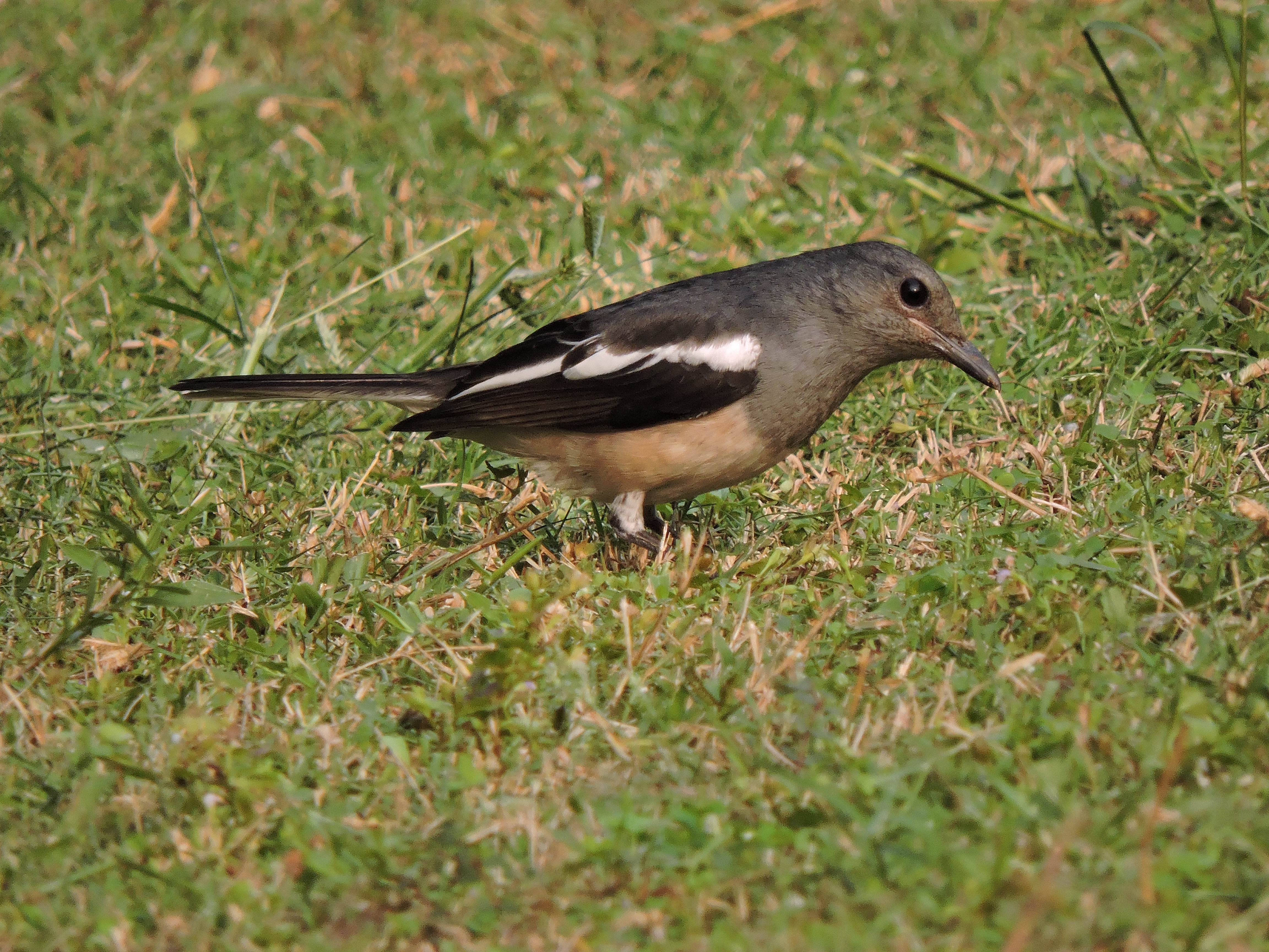 Oriental Magpie Robin, Mohali Punjab , India 02